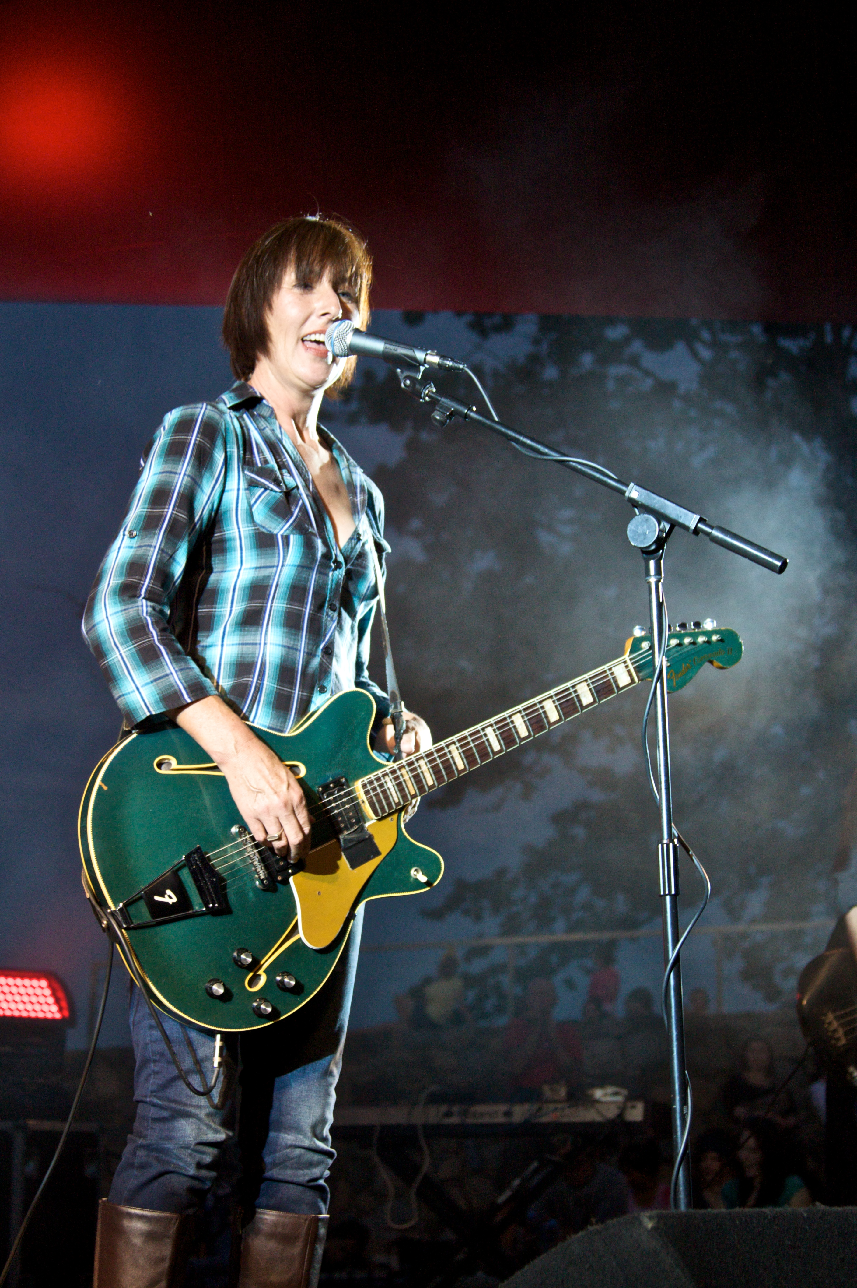 Suzie Higgie, Falling Joys reunited, National Museum of Australia, 2011-02-26 Fender Coronado II (custom color)